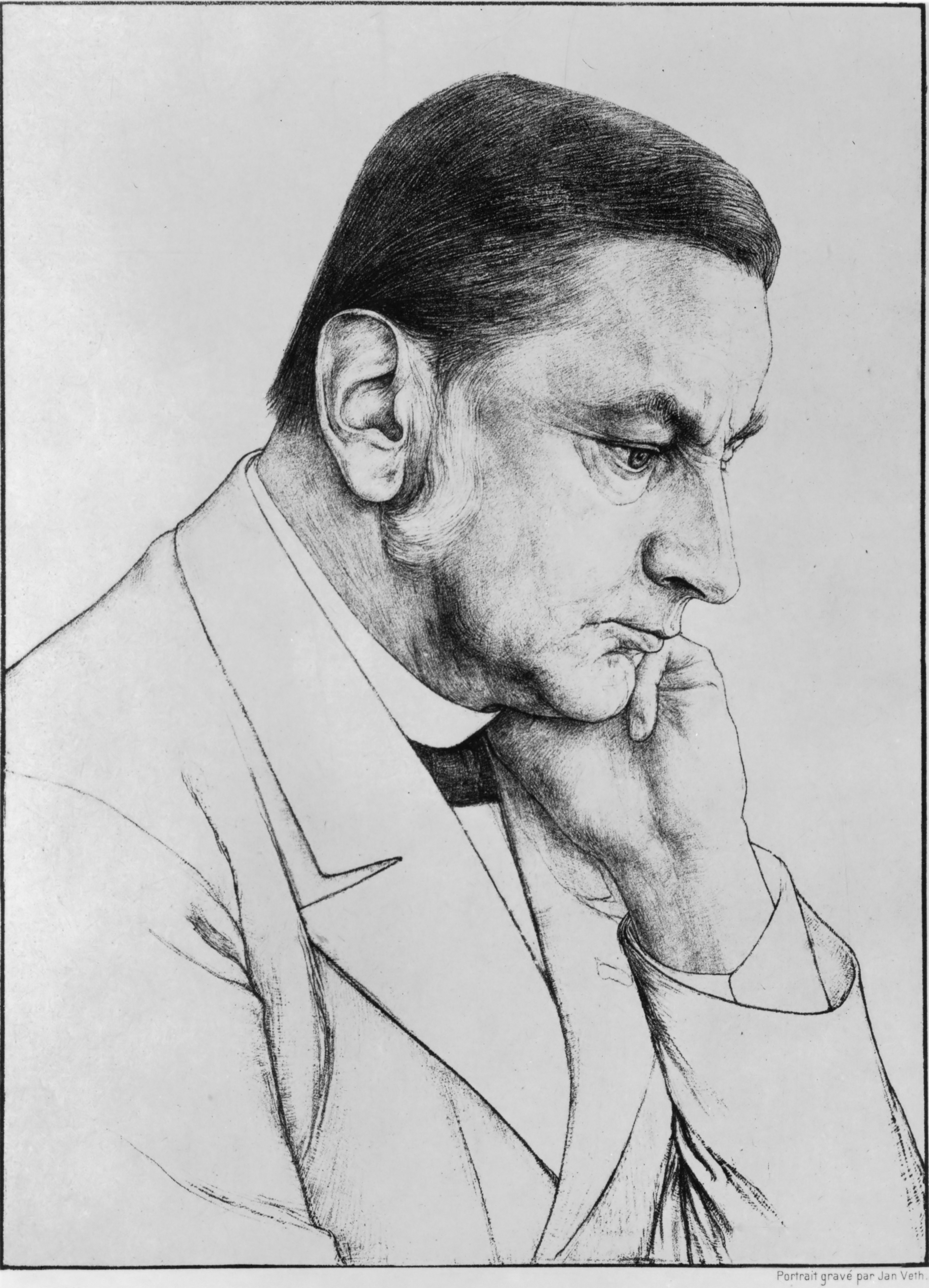 Alexander Frederik de Savornin Lohman (1837-1924).